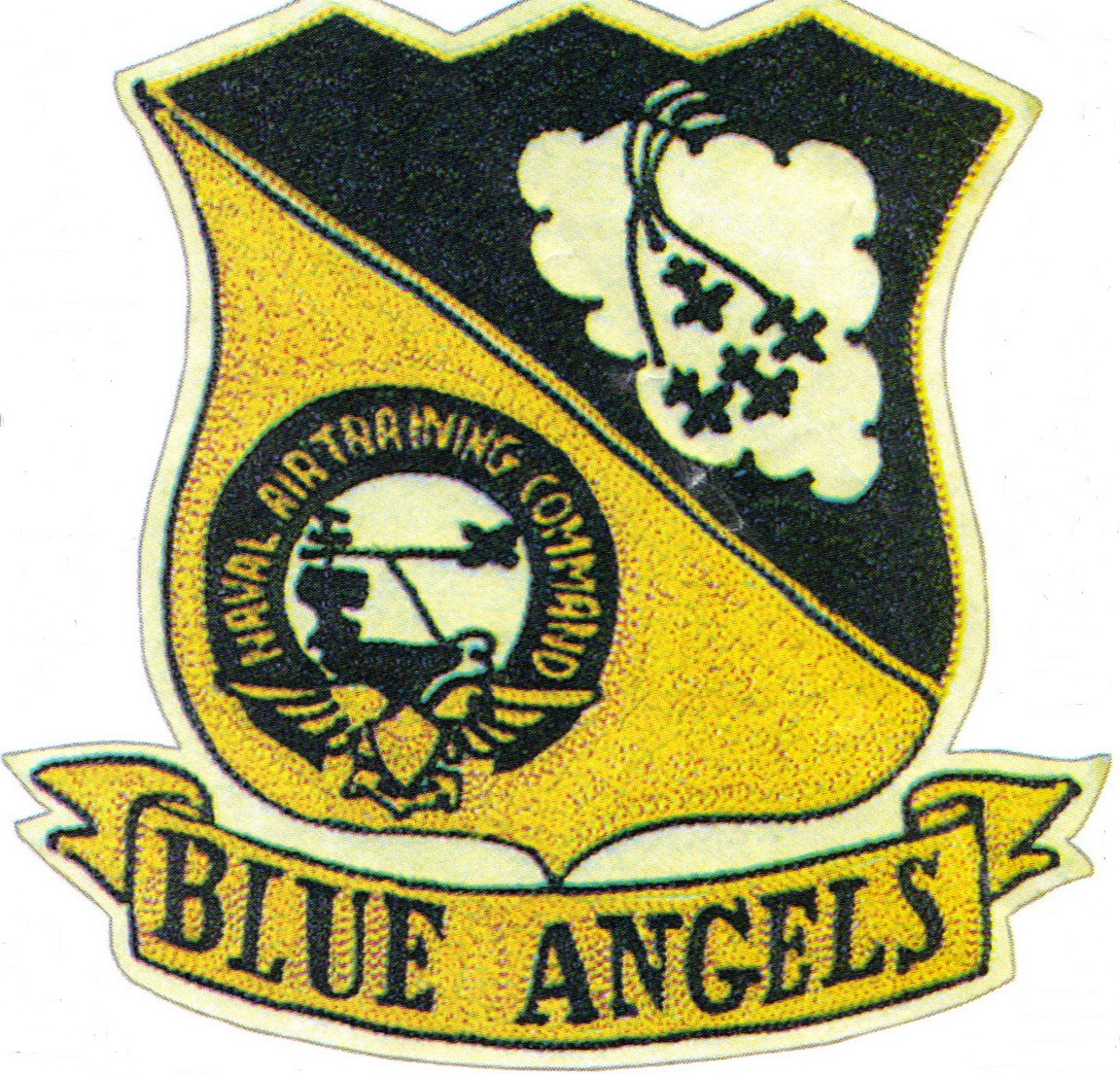 Navy Flight Demonstration Squadron Blue Angles original patch